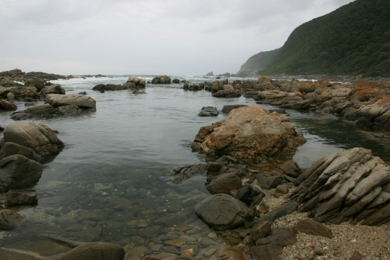 Scene on Otter Trail, South Africa, View from Ngubu Huts